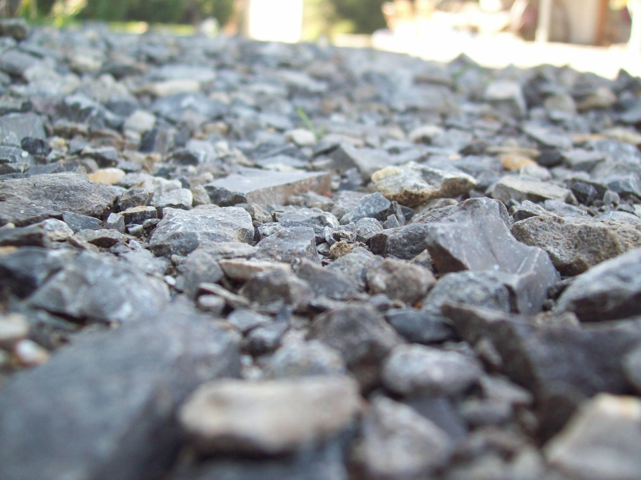 Grey garden gravel